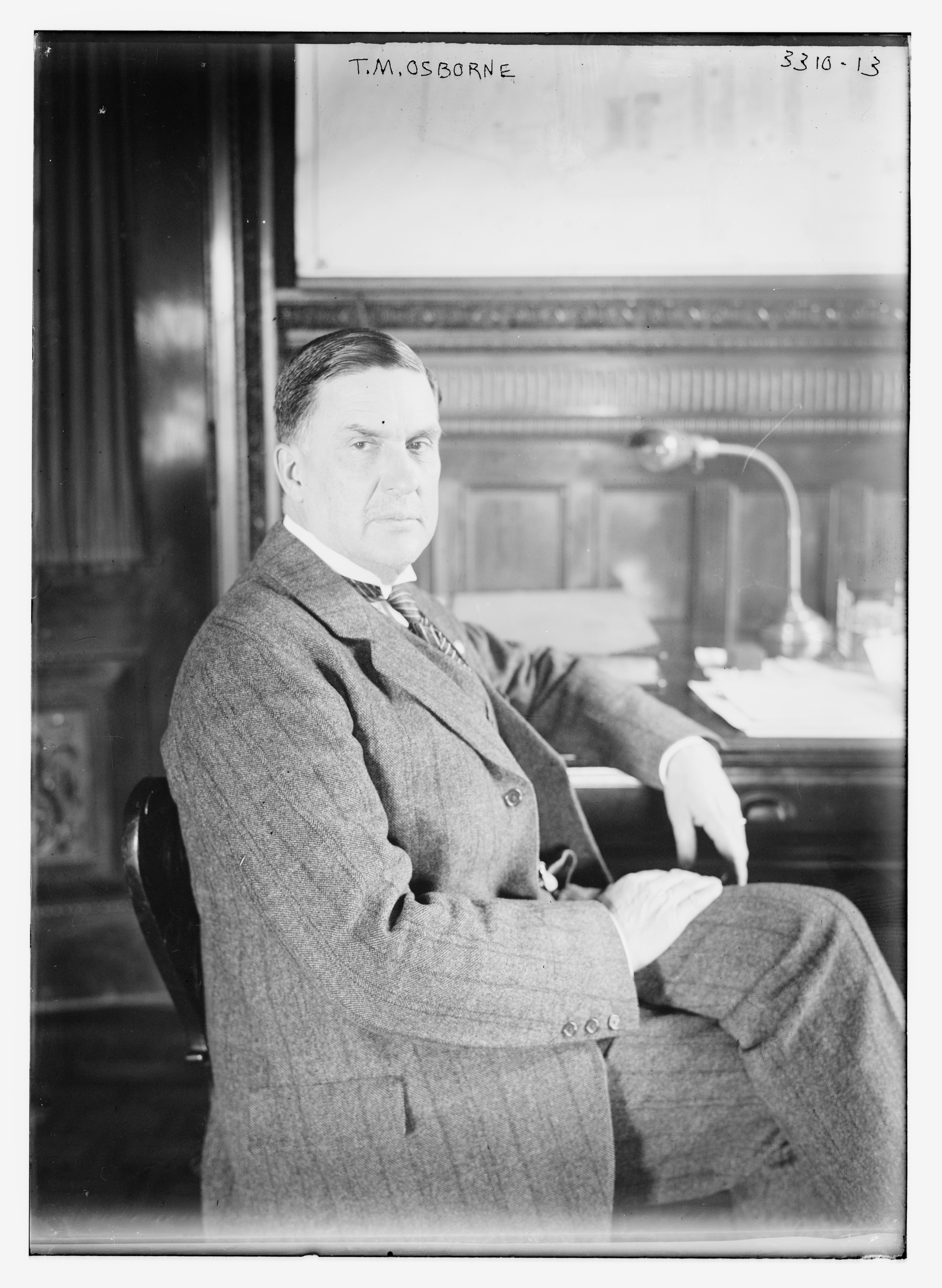 Thomas Mott Osborne circa 1910 at his desk